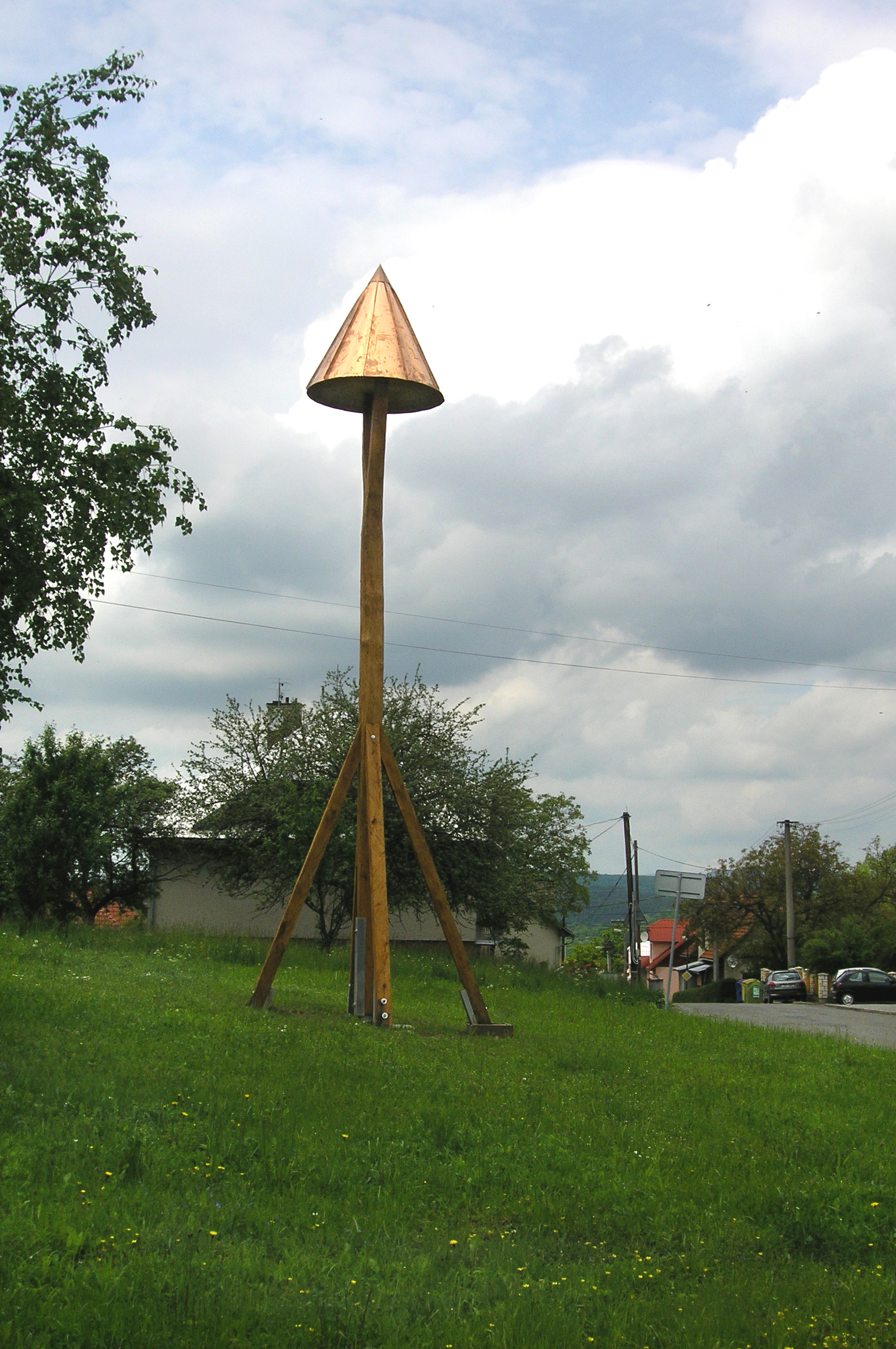 Ublo village, Czech Republic